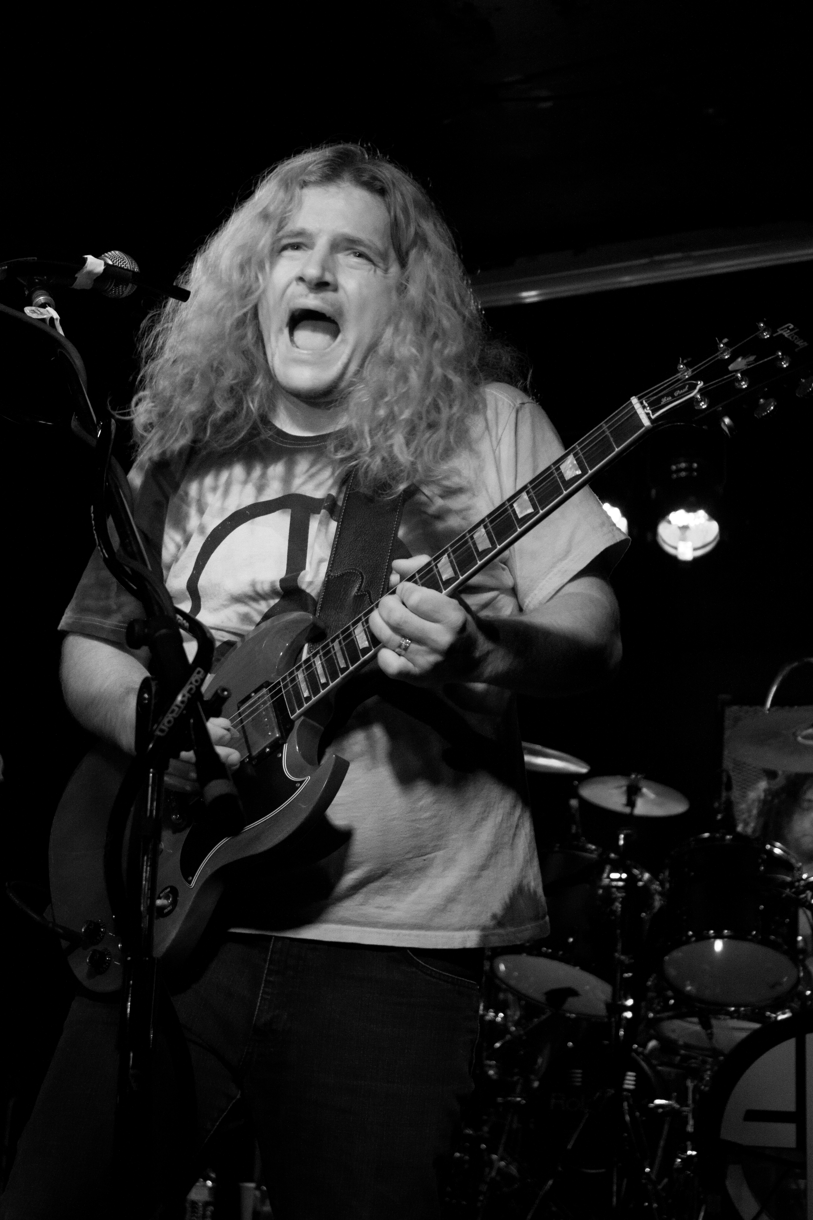 Hannon in 2010